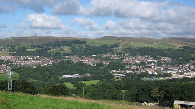 A view of Ramsbottom, North West England.